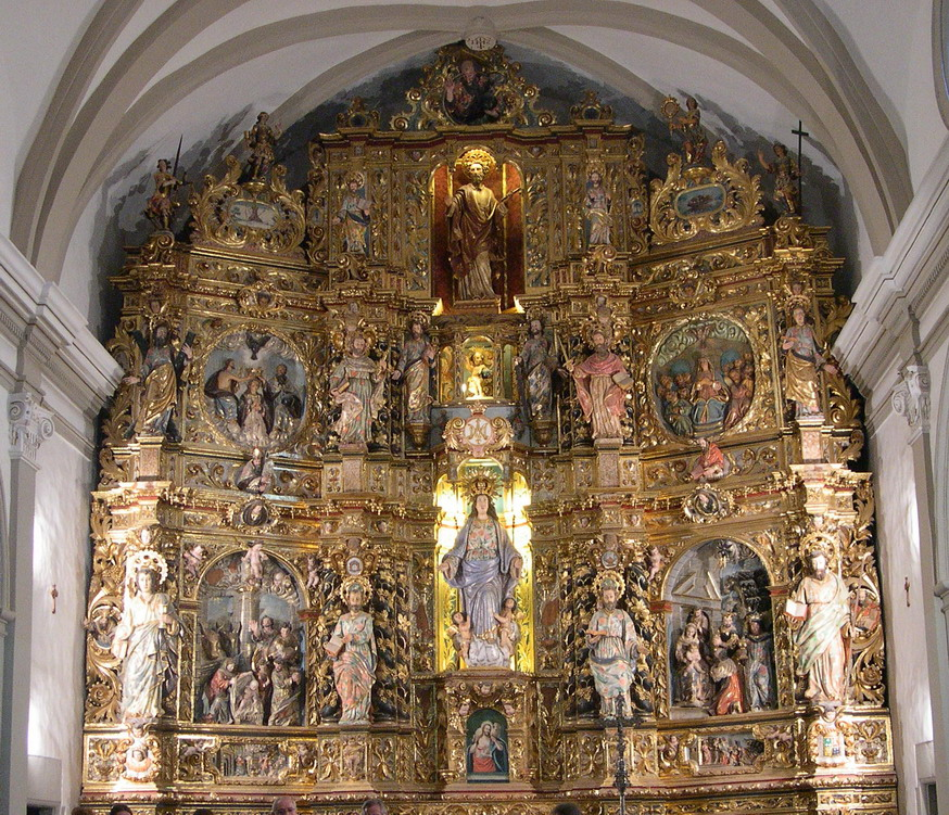 Baroque altarpiece (1704) in Mare de Déu dels Àngels church in Casserres, Berguedà, Catalonia